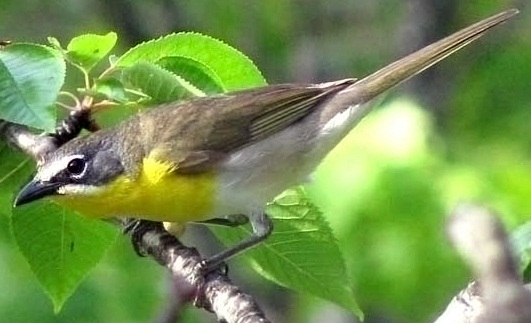 A Yellow-Breasted Chat next to a cherry that will probably become food.